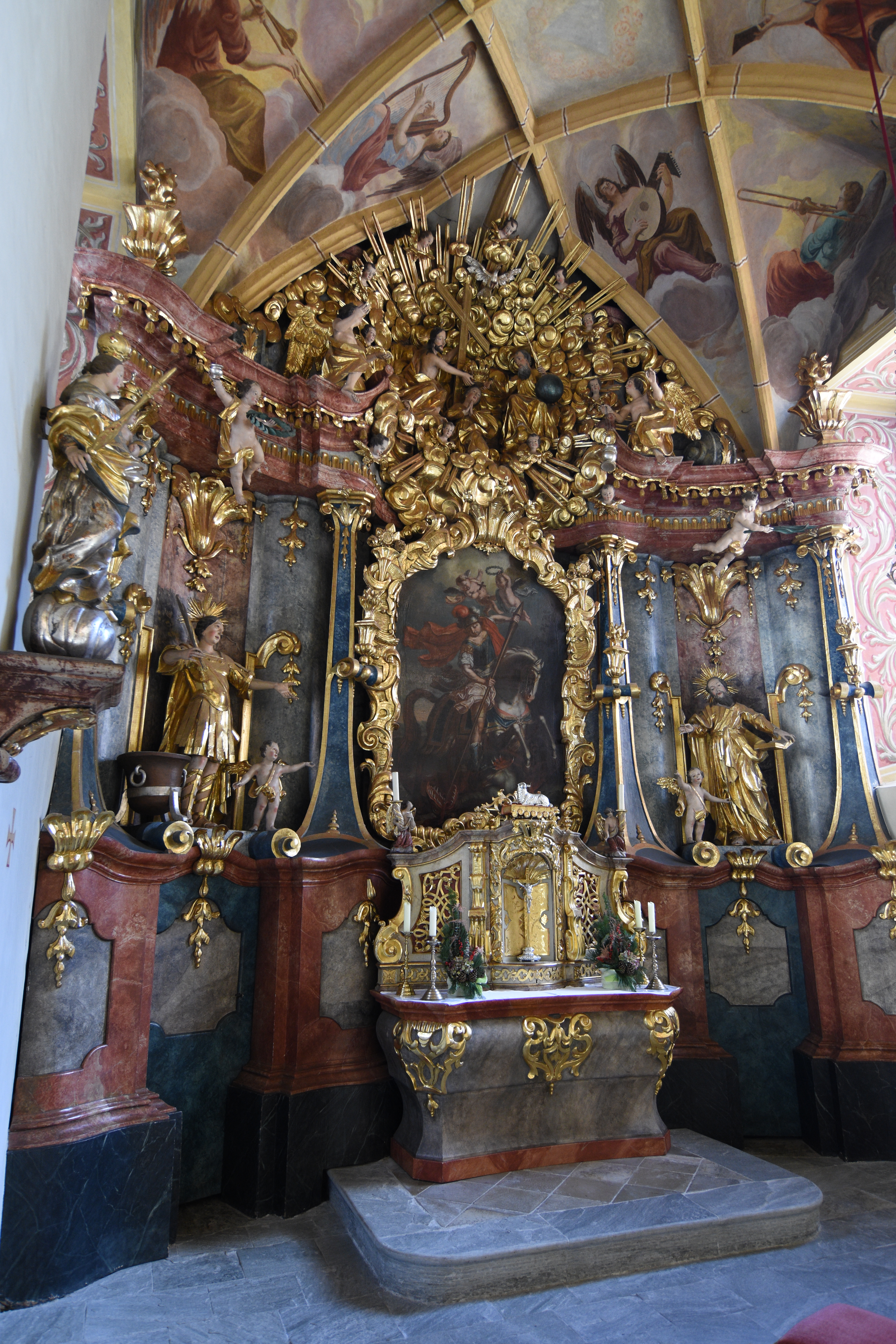 Church hl. Georg, Waldbach - Interior